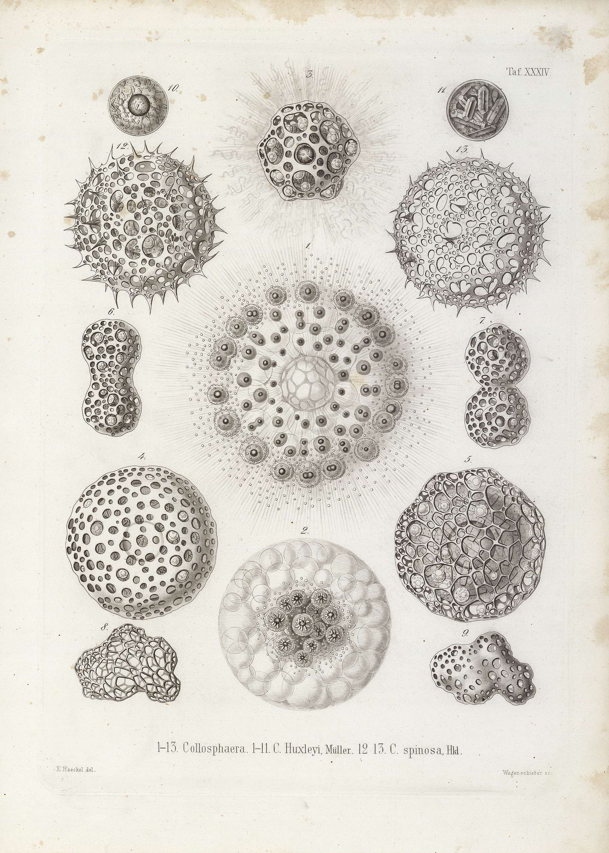 Taf. XXXV.: 1-14. Collozoum inerme, Hkl.